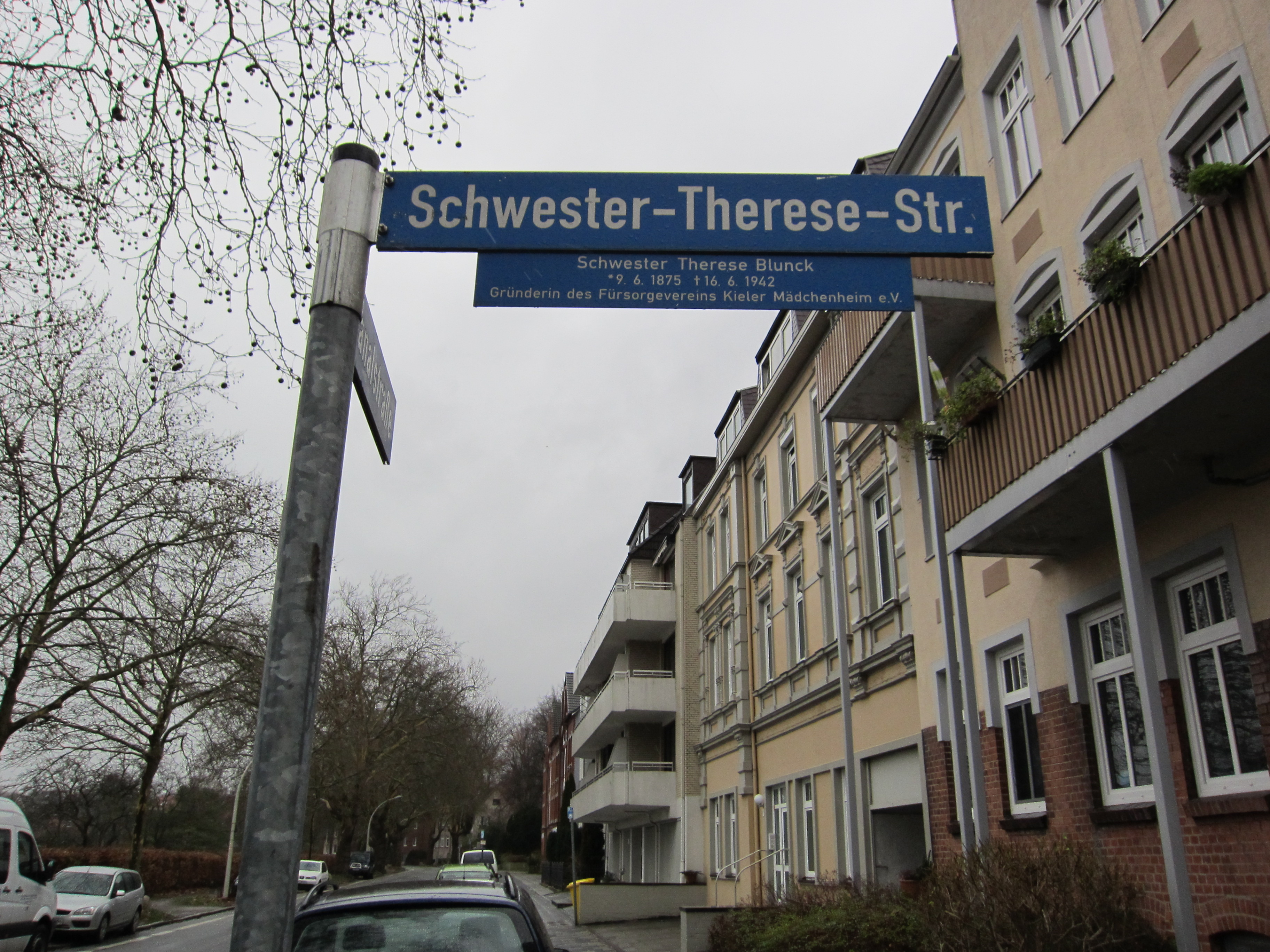 Street sign "Schwester-Therese-Straße", Kiel-Holtenau